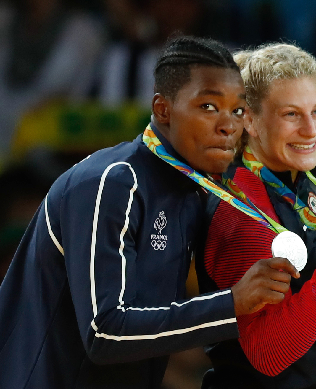 Rio de Janeiro - A judoca brasileira Mayra Aguiar vence cubana na categoria até 78 quilos e ganha medalha de bronze na Rio 2016 (Fernando Frazão/Agência Brasil)